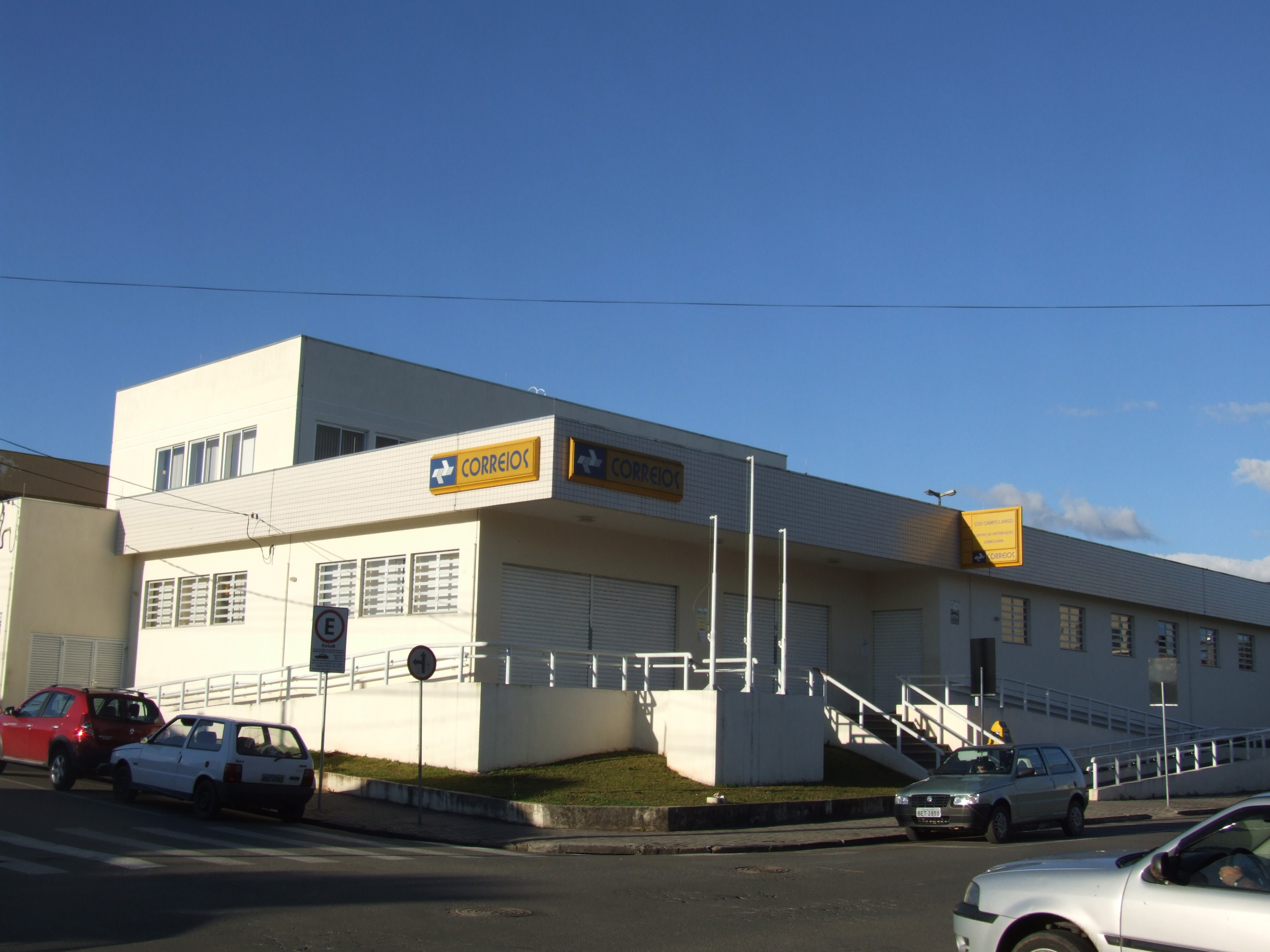 Mail Agency in Campo Largo, Paraná, Brazil.